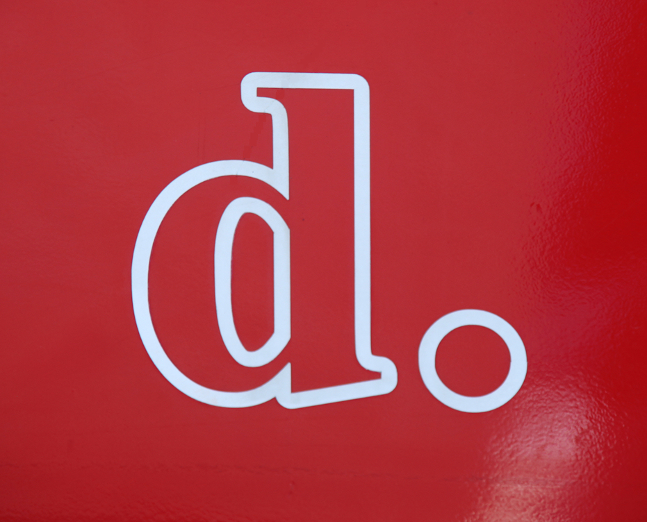 District of Columbia Department of Transportation (d-dot) logo on a D.C. Circulator bus.